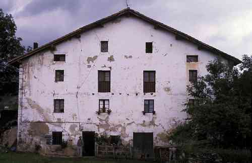 caserio Apalasagati, barrio Alizmendi, town Asteasu, district Tolosa, province Gipuzkoa, autonomous community Pais Vasco, country Spain